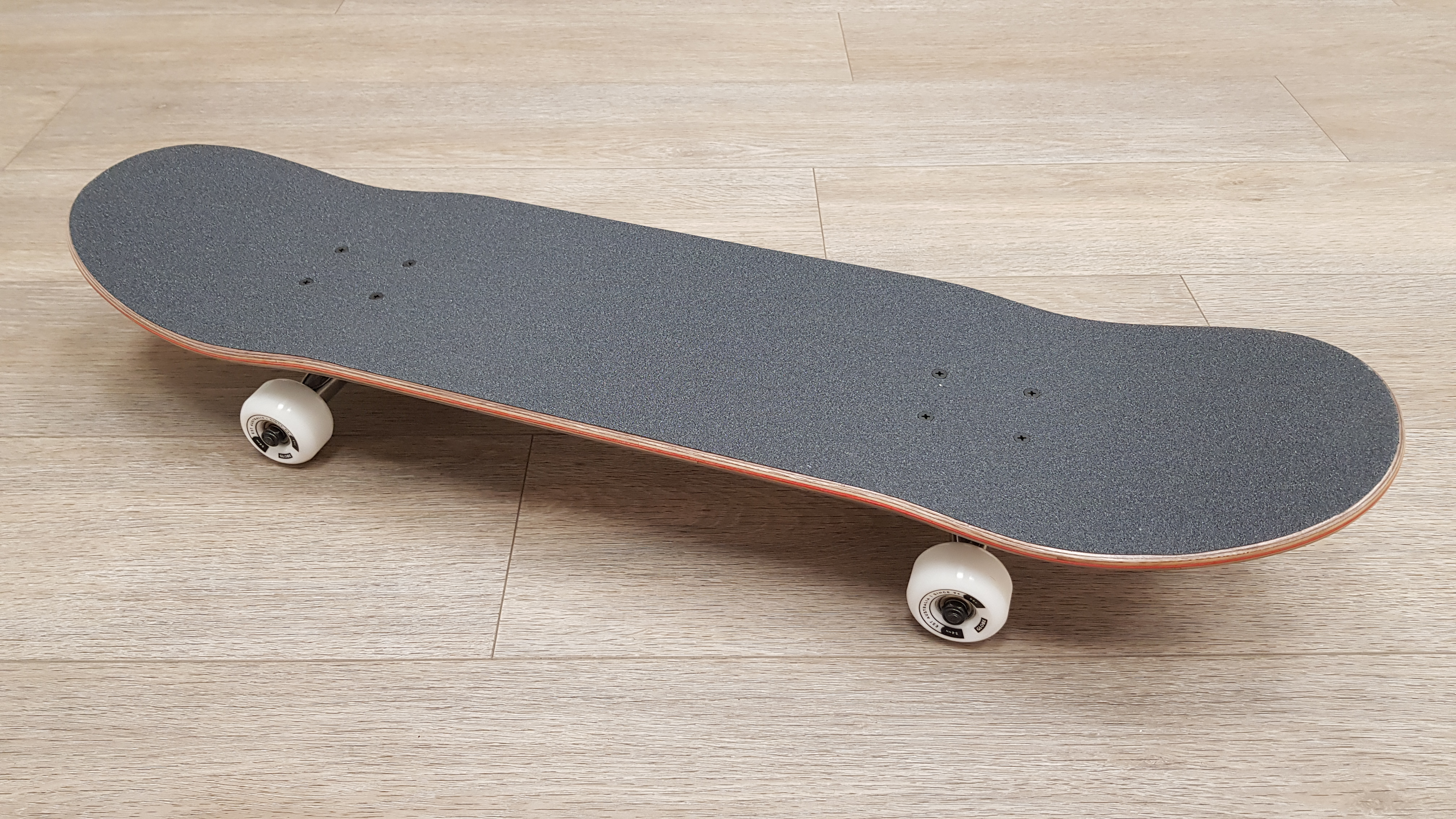 Skateboard, used for tricks.